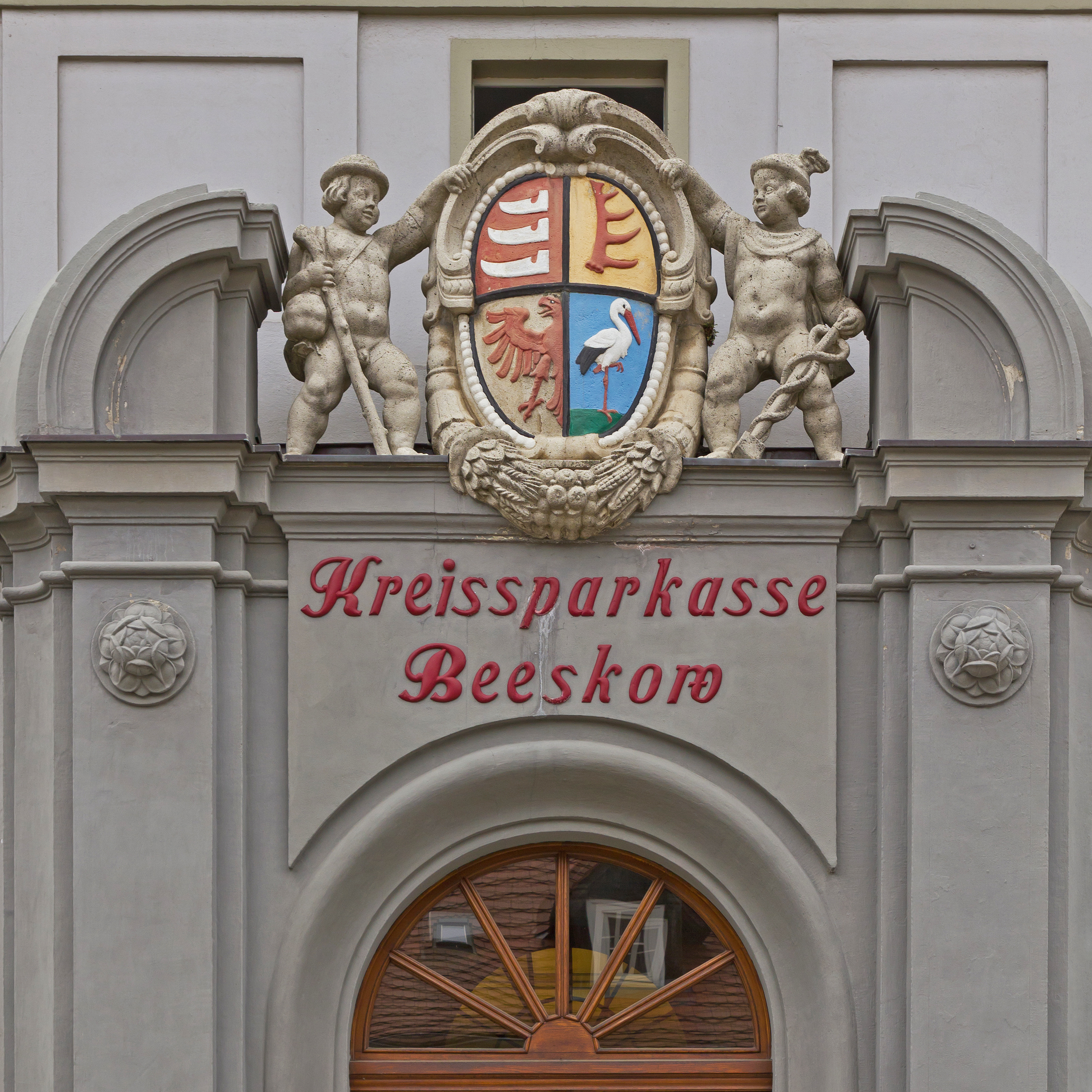 Entrance portal of Sparkasse in Beeskow, Brandenburg, Germany